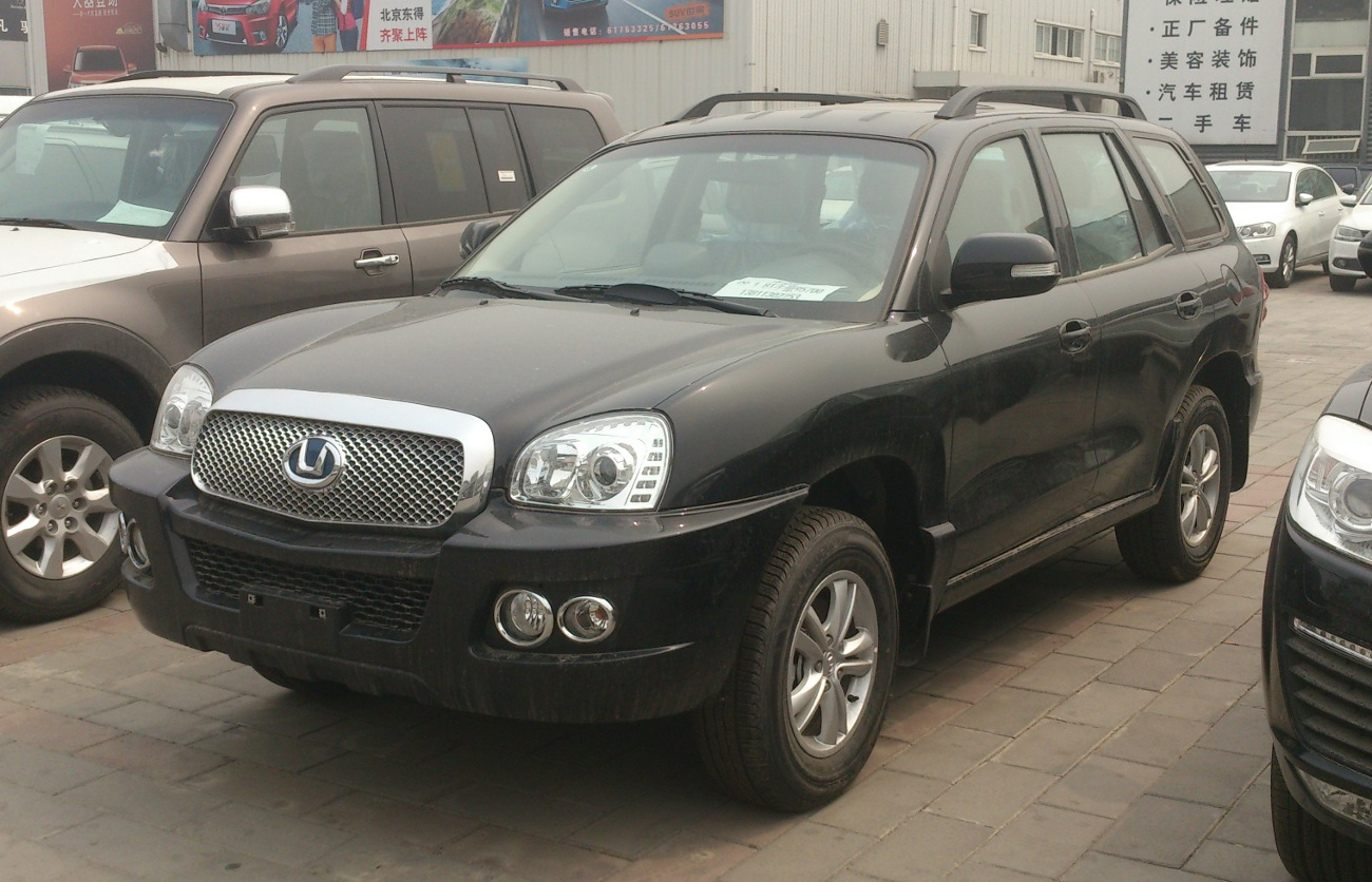 Hawtai Santa Fe facelift photographed in Beijing, China.